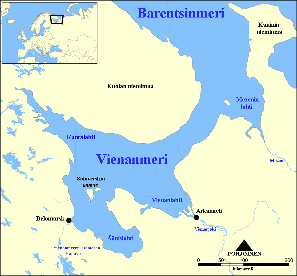 Map of White Sea with Finnish titles